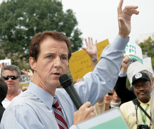 Tim Phillips speaks at an AFP healthcare rally next to the United States Capitol in October 2009.